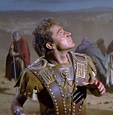 Trailer Screenshot of The Robe (1953).